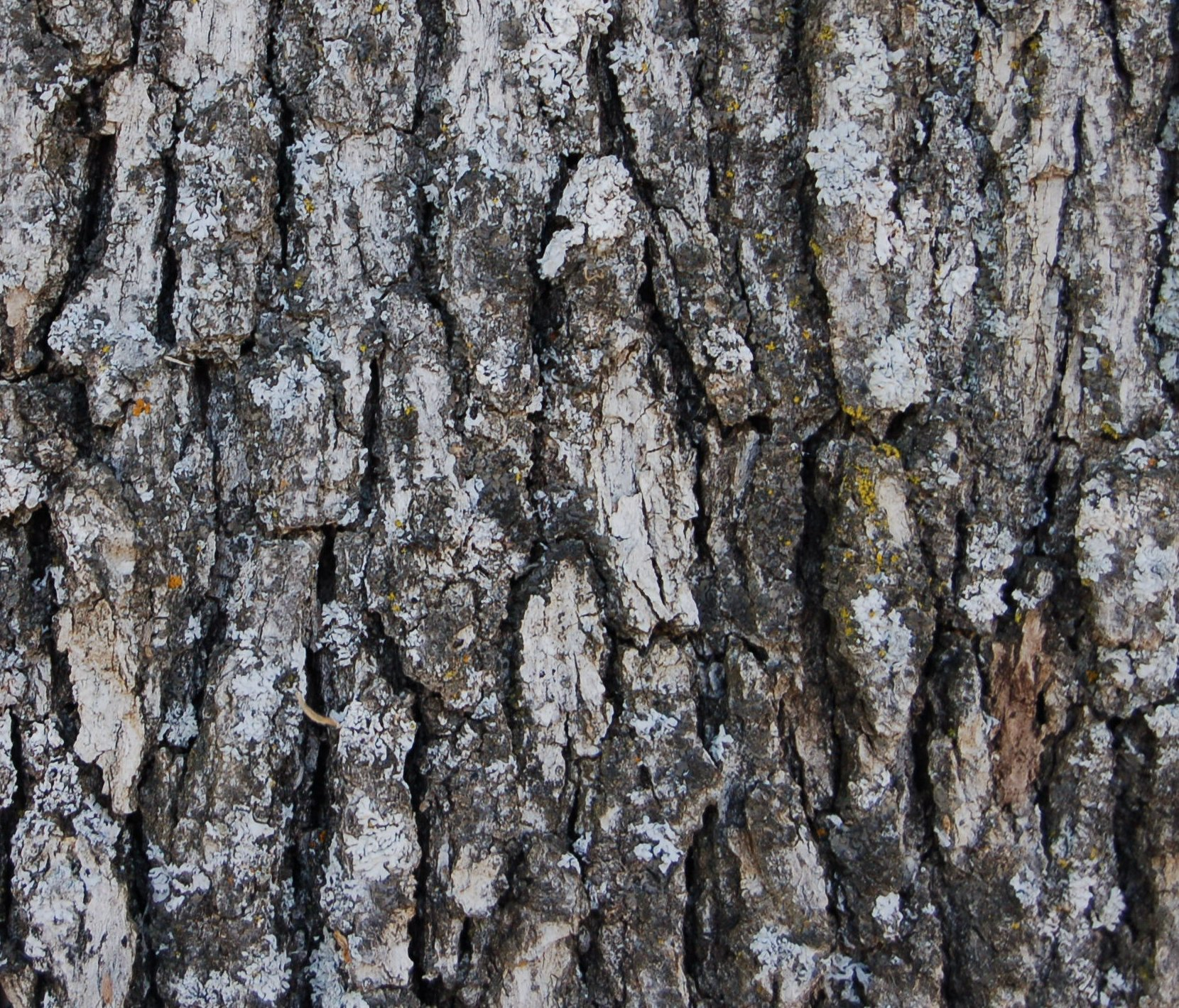 Bark of the Blue Oak.